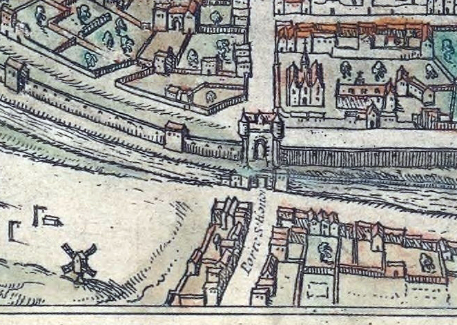 Enceinte de Charles V (detail porte SaintHonoré) on the plan of Braun and Hogenberg (c.1530, published in 1572, edition of 1593).